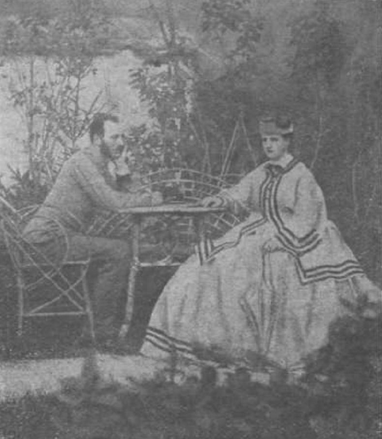 Archduke Joseph Karl Ludwig of Austria and his wife Clotilde von Sachsen-Coburg und Gotha